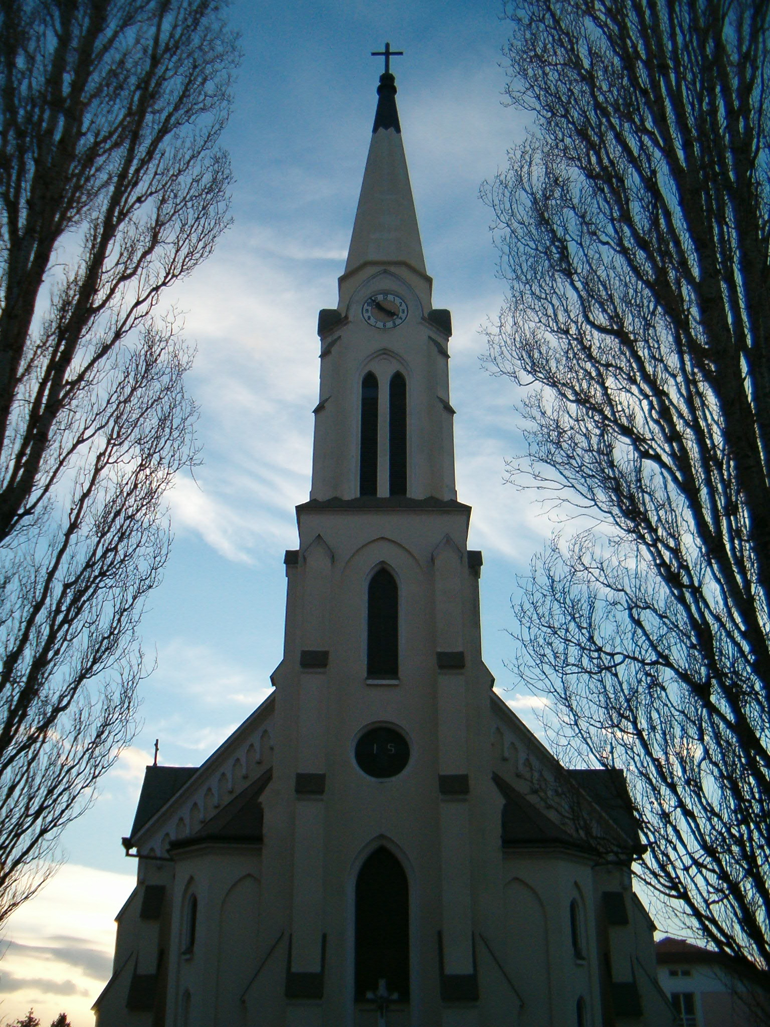 Crkva u Muzlji, Serbia